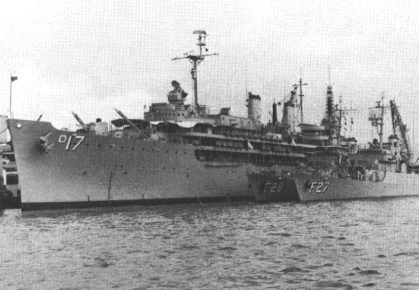 The U.S. Navy destroyer tender USS Piedmont (AD-17), circa 1969. Alongside are the Iranian Bayandor-class corvettes Milanian (F-27) and Kahnamoie (F-28). These corvettes were built by Levingston Shipbuilding in Texas (USA) under the (Mutual Assistance Programme), wherein ships were built from U.S. Navy funding (wtih the U.S. designation PF-105/PF-106) and transferred immediately upon completion to Iran.